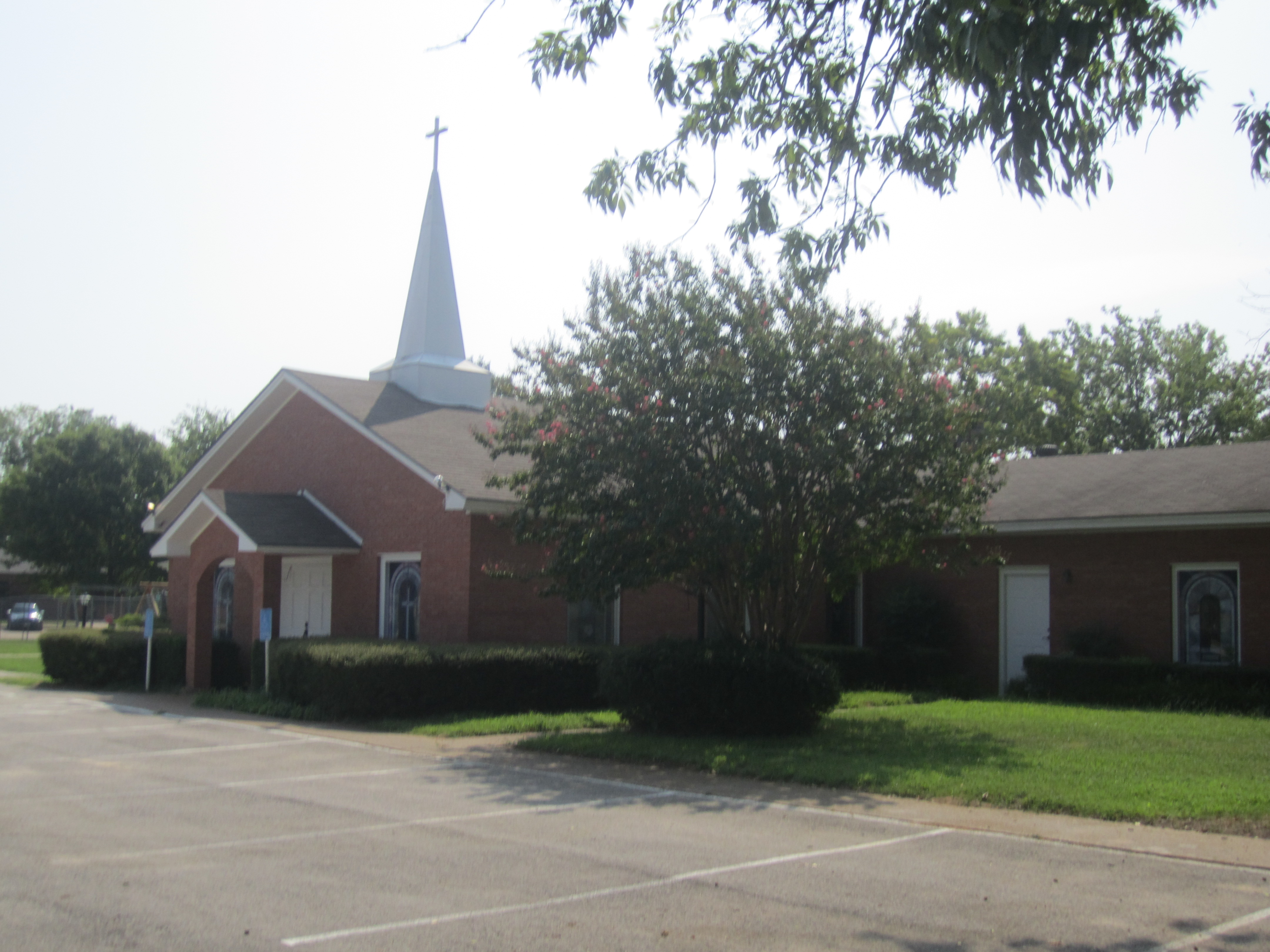 I took photo with Canon camera in Murchison, TX.